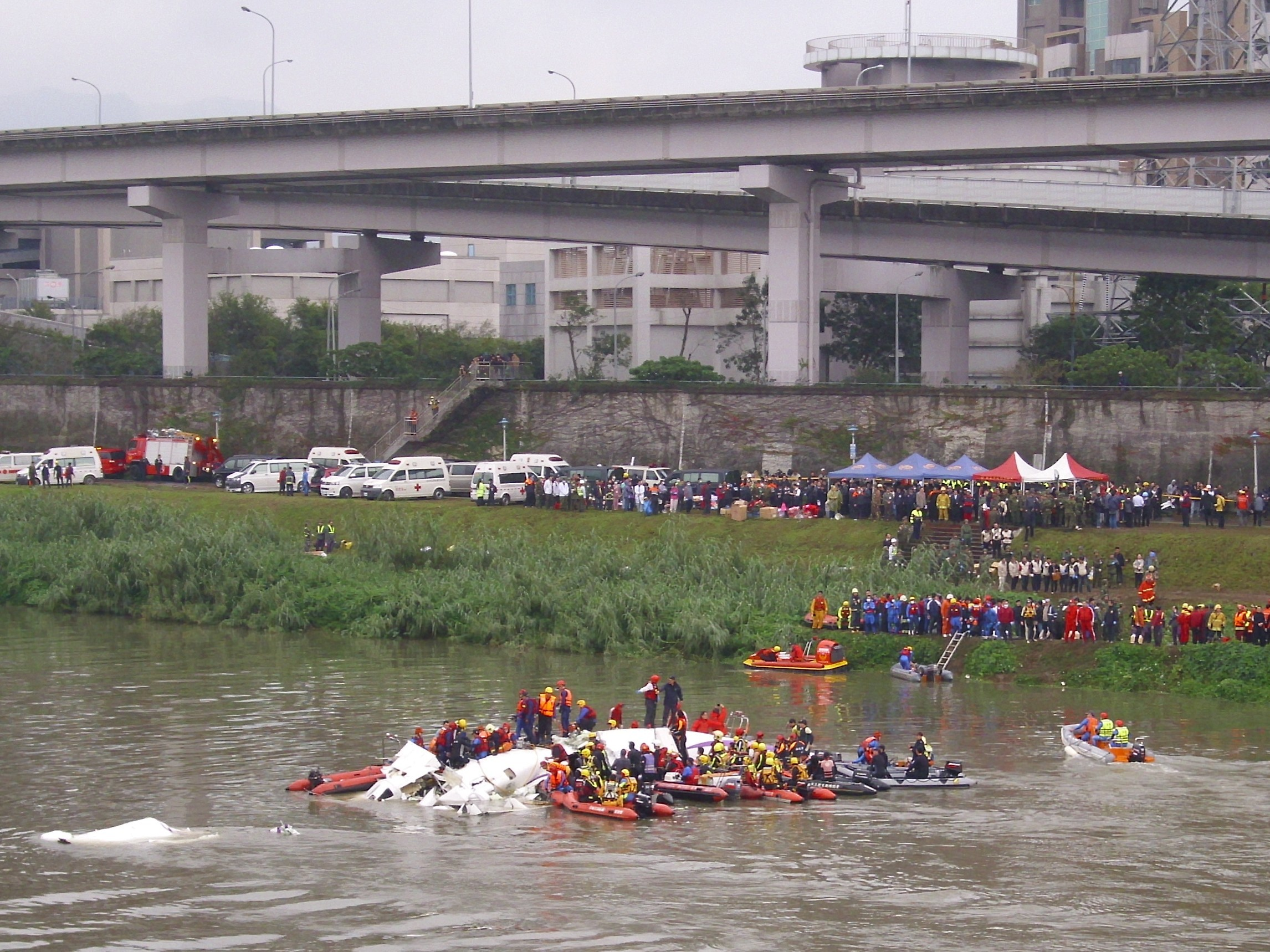 TransAsia Airways Flight 235 in the Keelung River under rescue, Huandong Viaduct in background